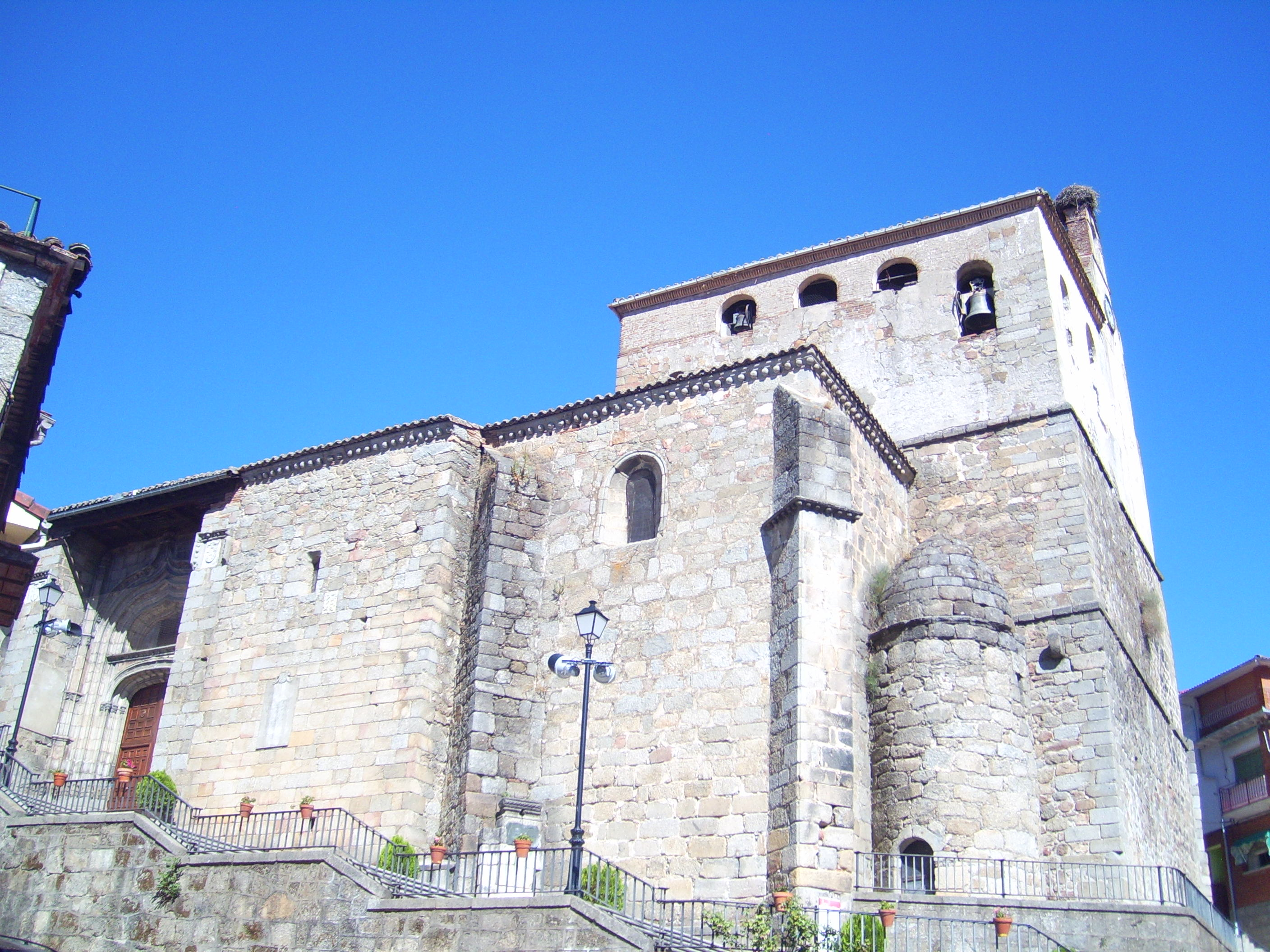 Church of Saint John the baptist, Mombeltrán (Ávila, Spain)